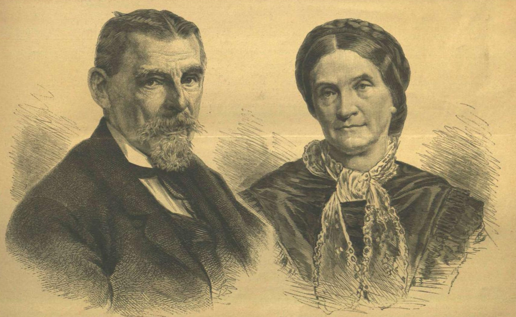 Maximilian Joseph, Duke in Bavaria and Princess Ludovika of Bavaria